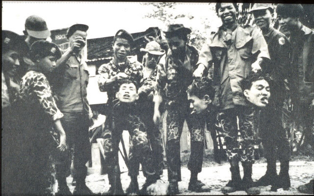 ARVN soldier decollated enemy bodies